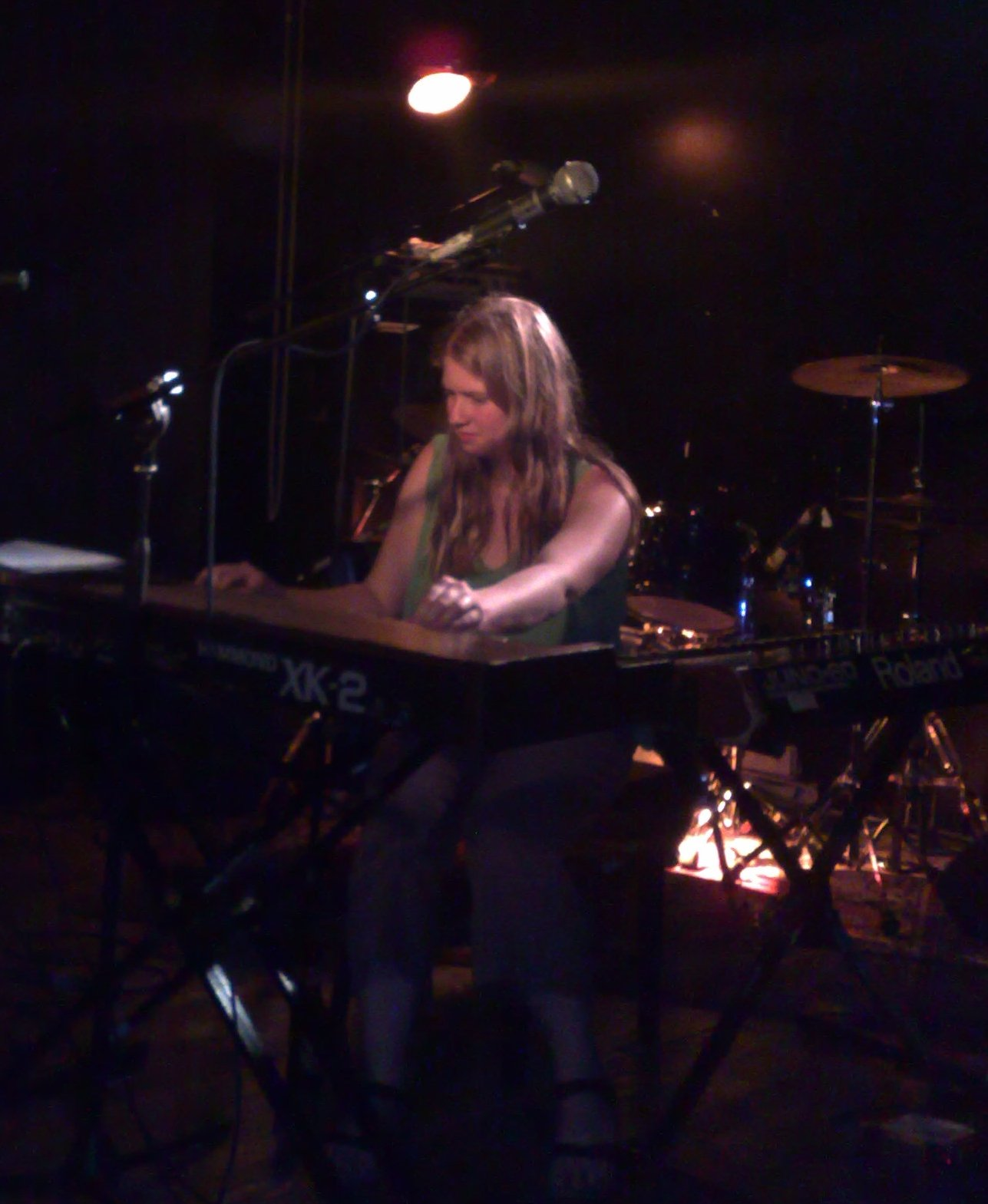 Maya Dunietz with Ophir Klemperer, Levontin 7, 02-08-2009